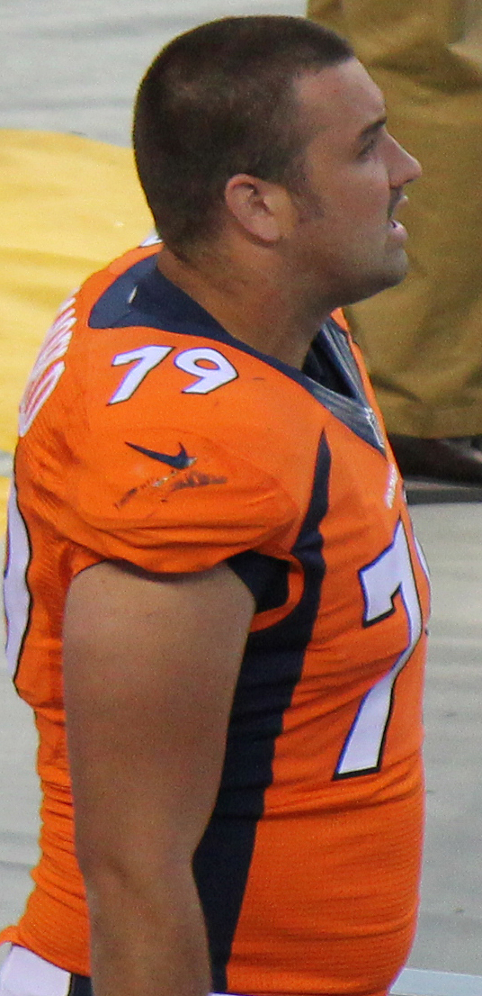 Michael Schofield, a player on the National Football League.